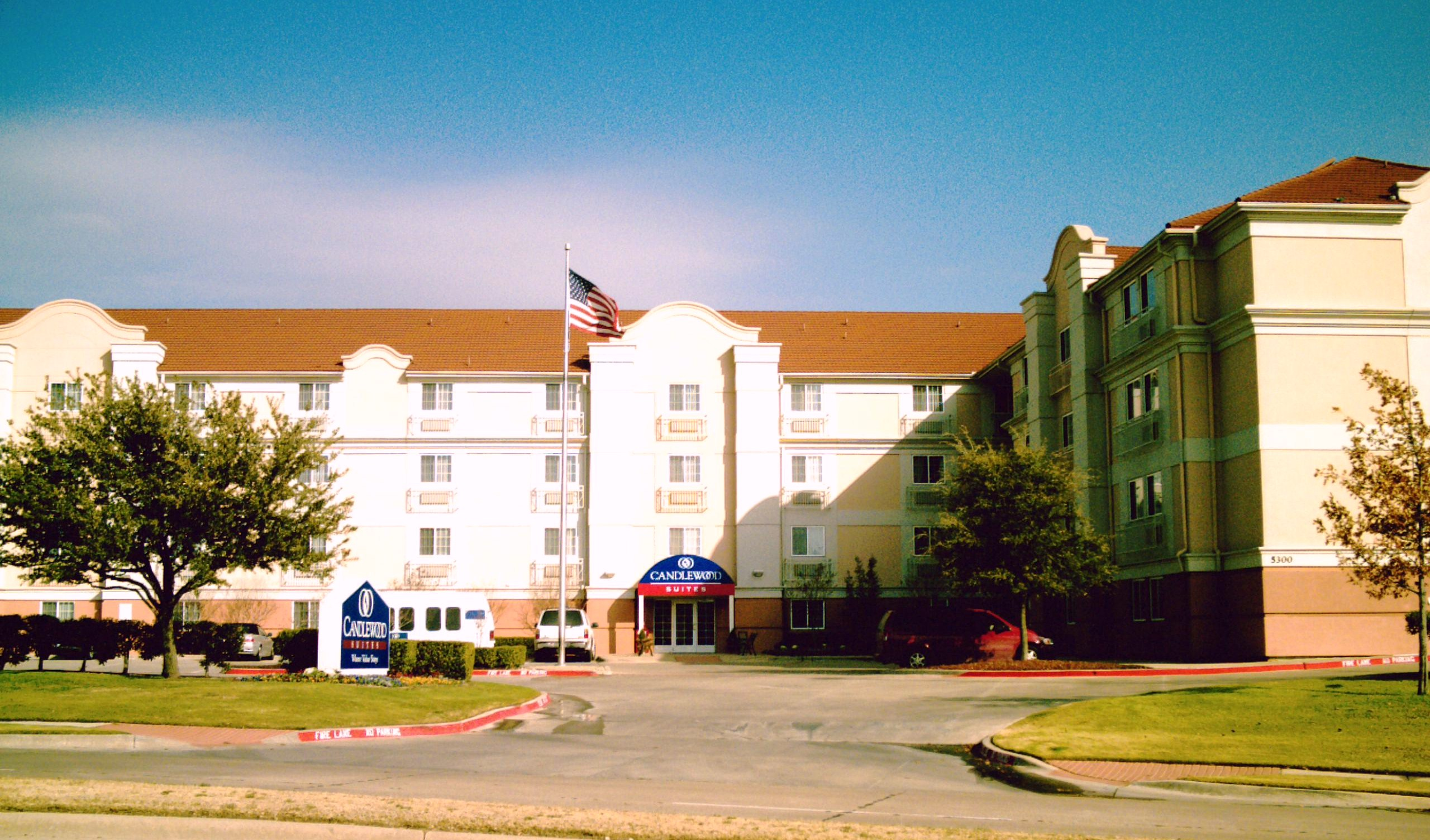 Candlewood Suites facility in Irving, TX